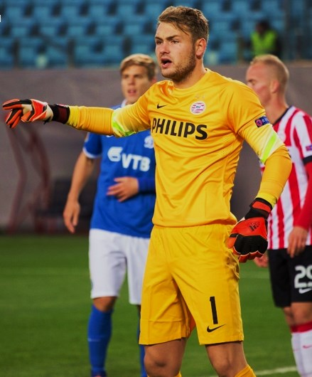 Jeroen Zoet